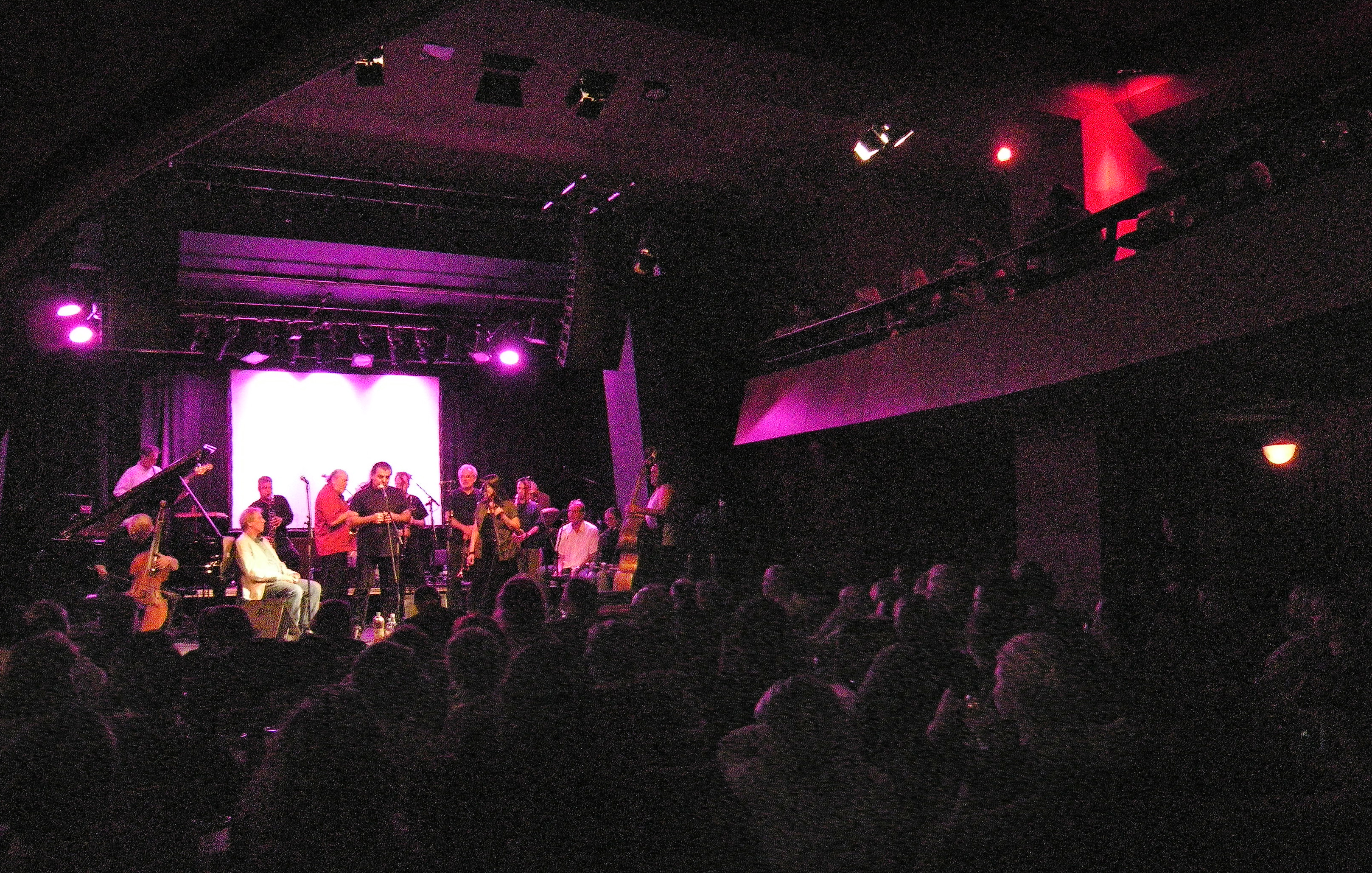 reformARTorchestra performing 'Subway Art', in Porgy&Bess jazz and music club, Vienna, Austria.